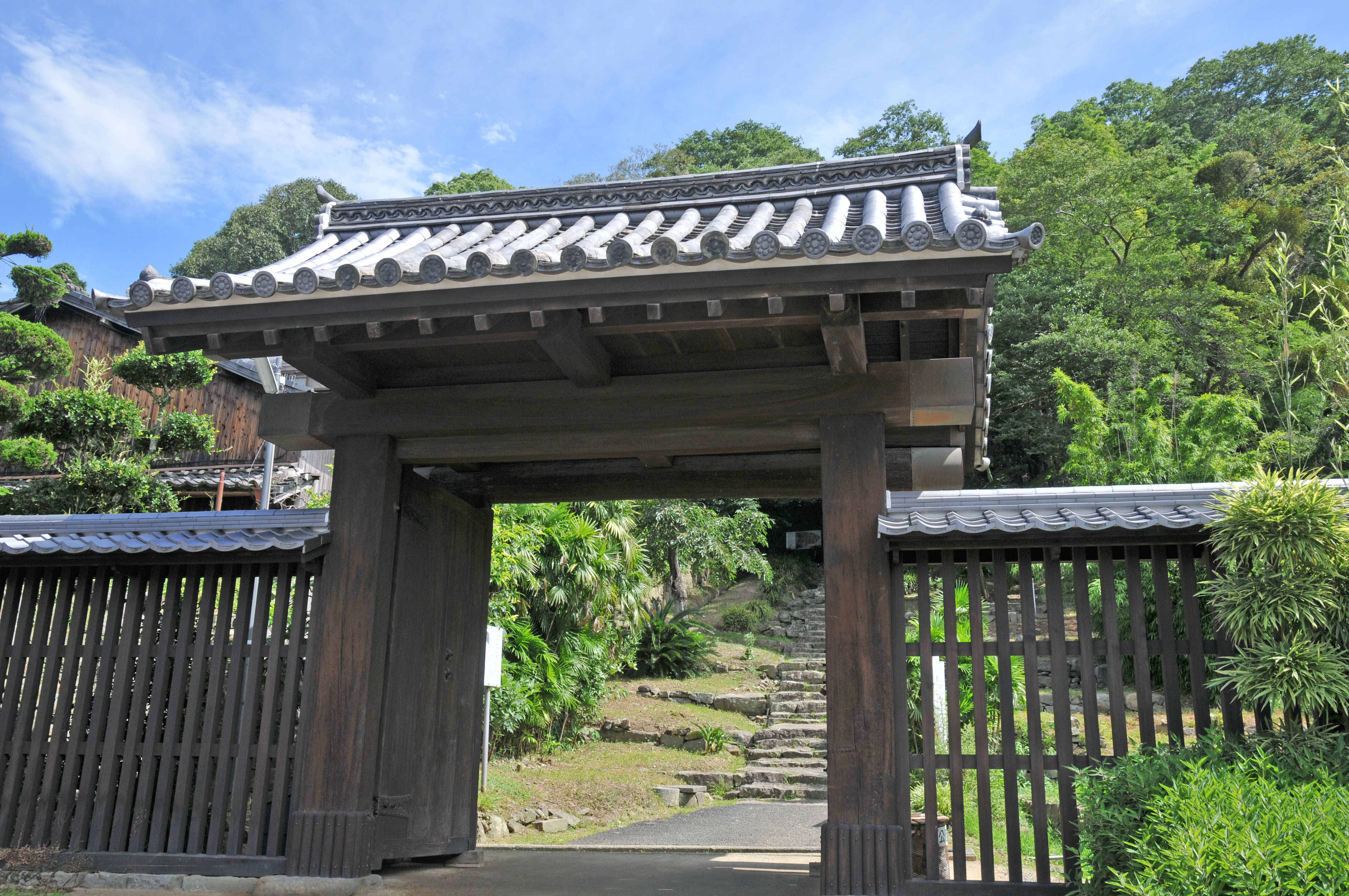 Noboritachi-mon gate, Uwajima castle